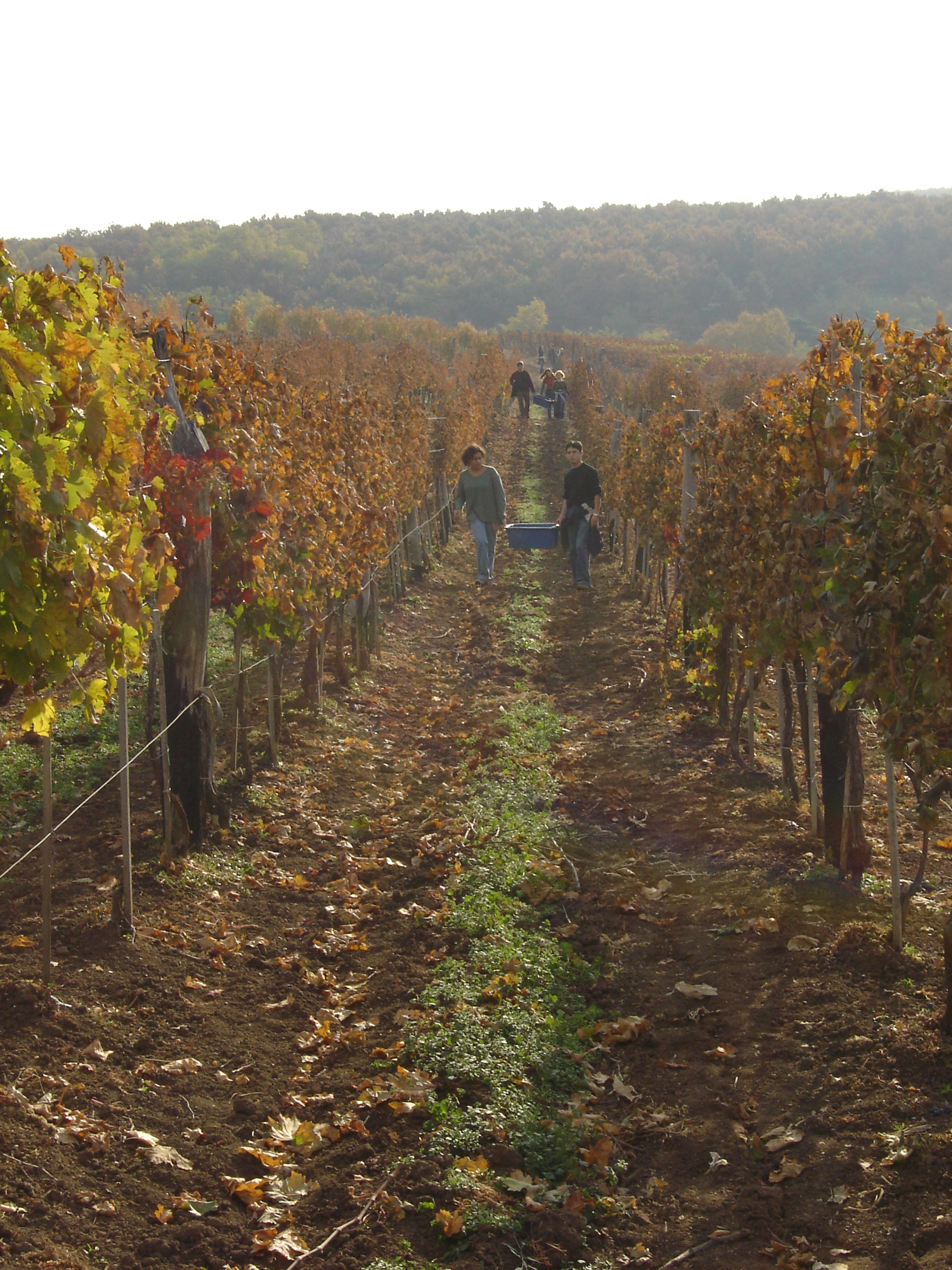 Eger, Hungary The wineyard where they produce Egri Bikaver, amongst others